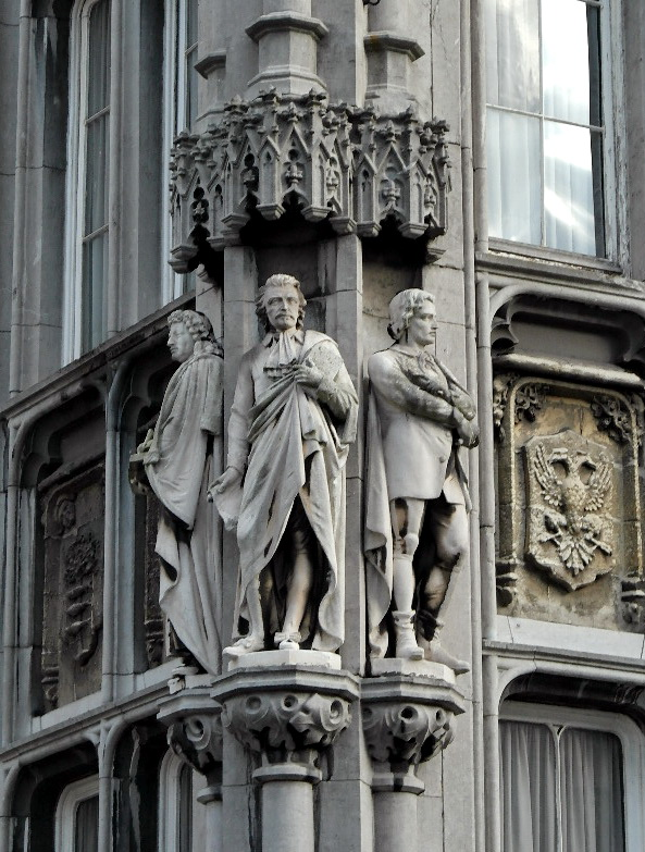 West façade of the provincial palace in Liège, Belgium Here the 19th-century statues of Mathias-Guillaume de Louvrex, Charles de Méan et Jean Del Cour